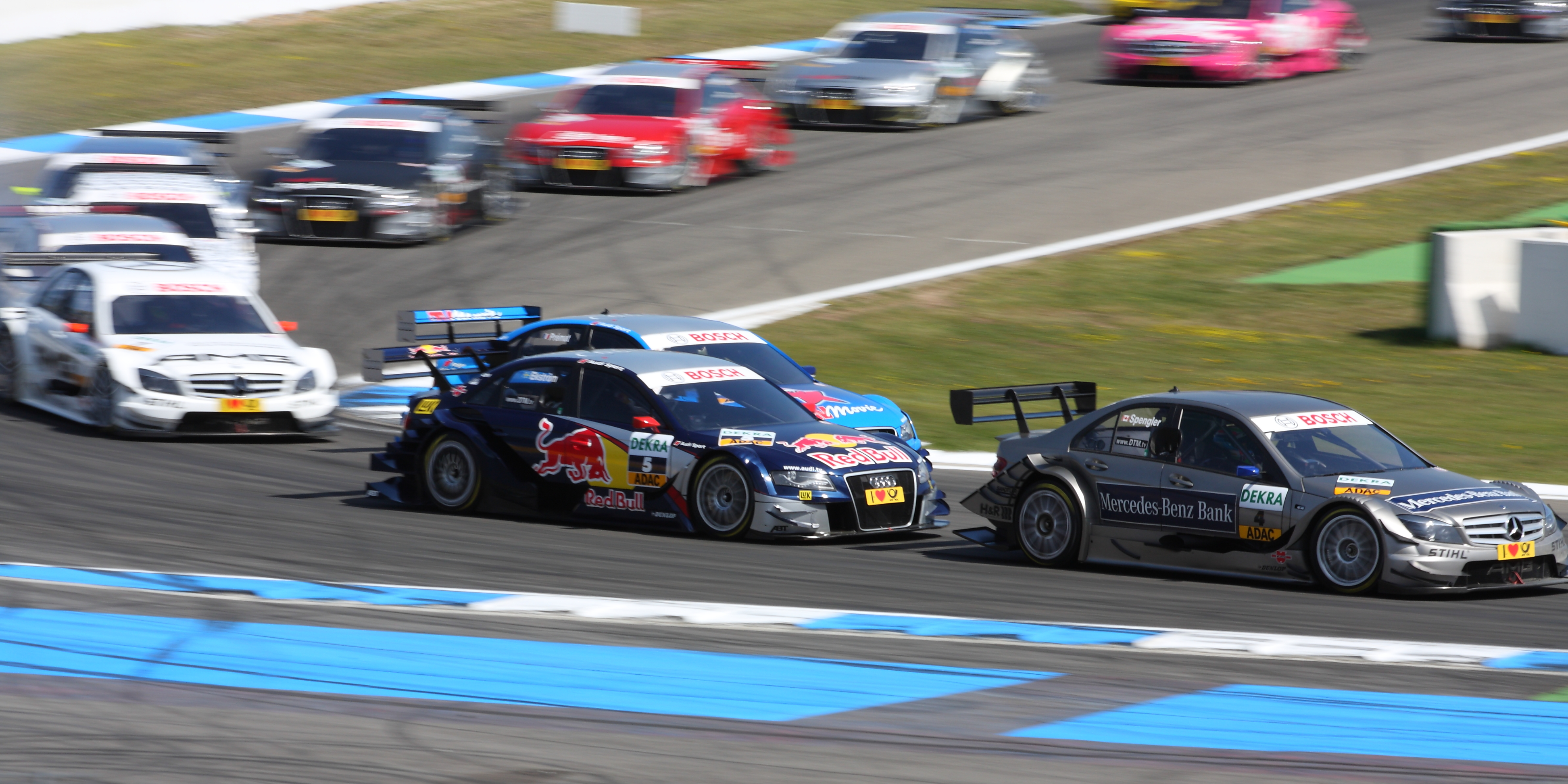 DTM race on the Hockenheimring 2010